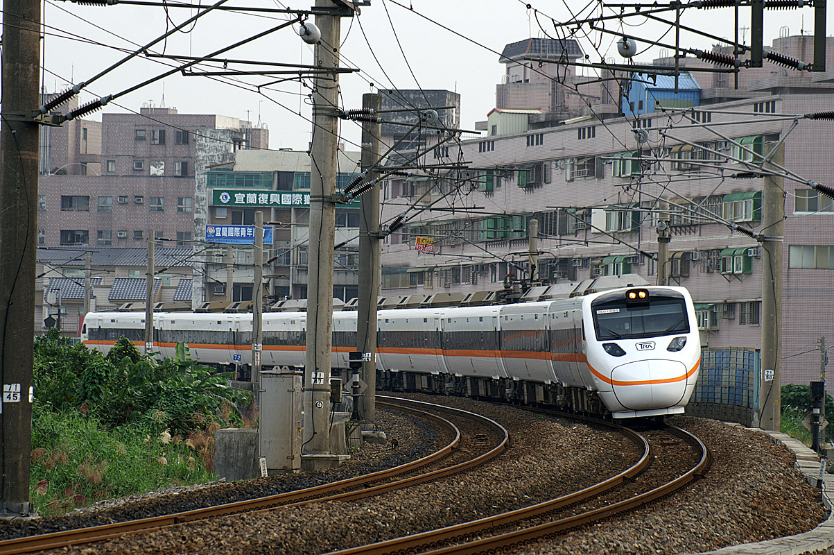 TEMU1000 at Ilan station